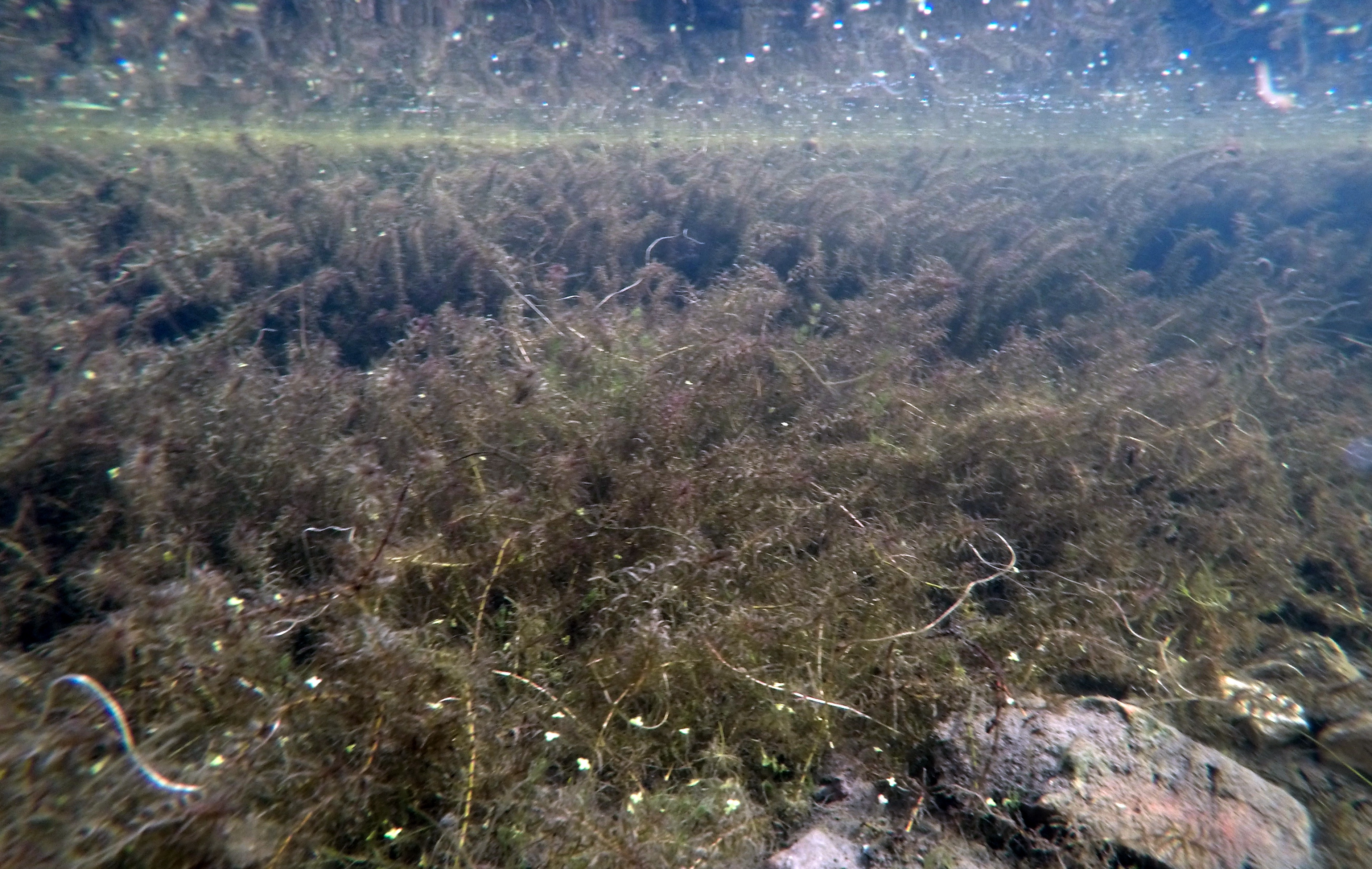 Underwater seaweed (Elodea canadensis) photographed in the ditches of the Citadelle Vauban in Lille (Northern France), here on August 18, 2018 at shallow depth (20-30 cm). This is home to some green frogs, newts, dragonflies and sticklebacks.